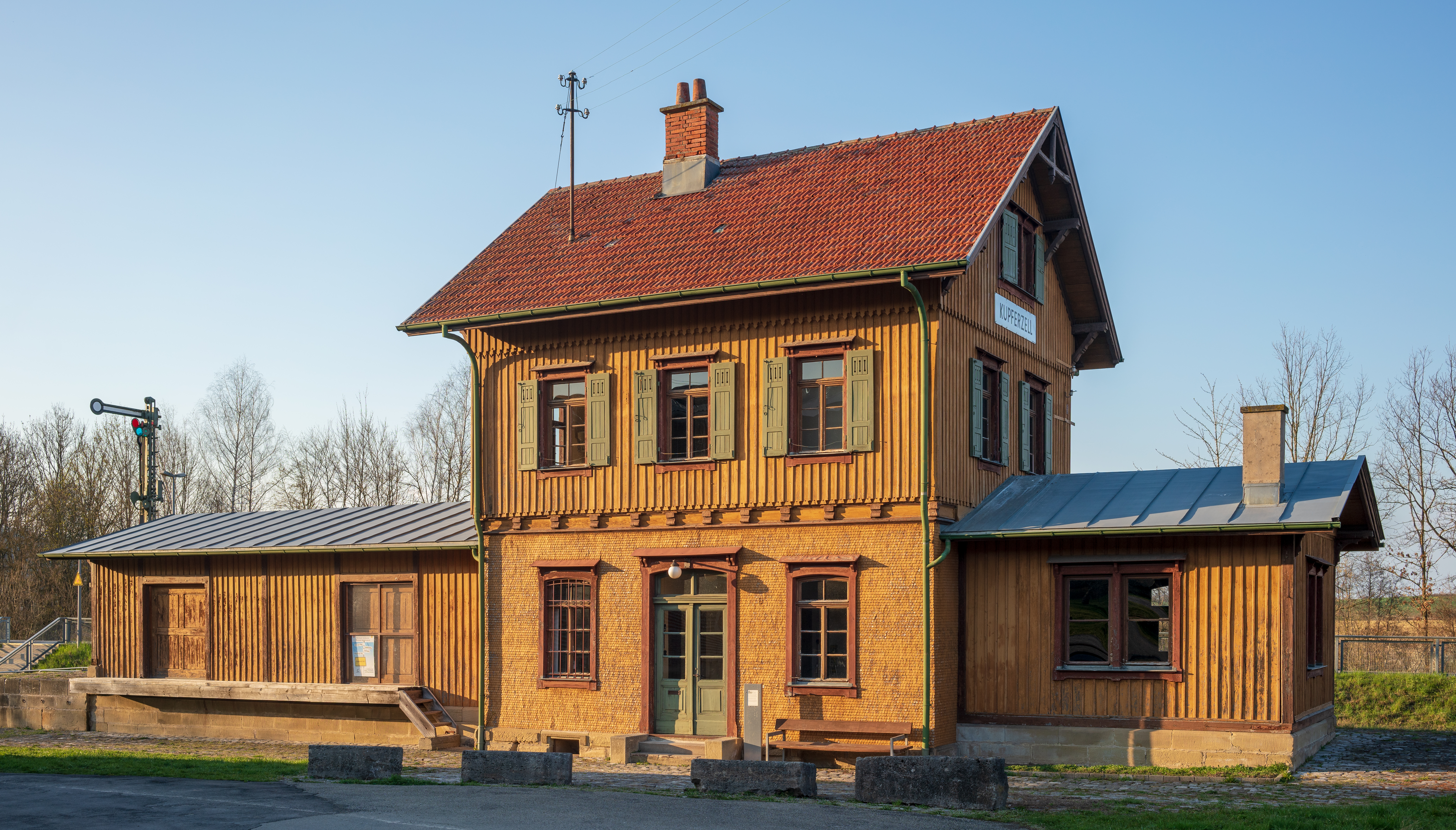 Hohenloher Freilandmuseum near Schwäbisch Hall, Germany, building complex Technik: The railway station building from Kupferzell, view from south-south-west at an evening in March (hence the vivic colours).This is a typical, well-preserved example of the so-called Württembergischer Einheitsbahnhof, type IIa.